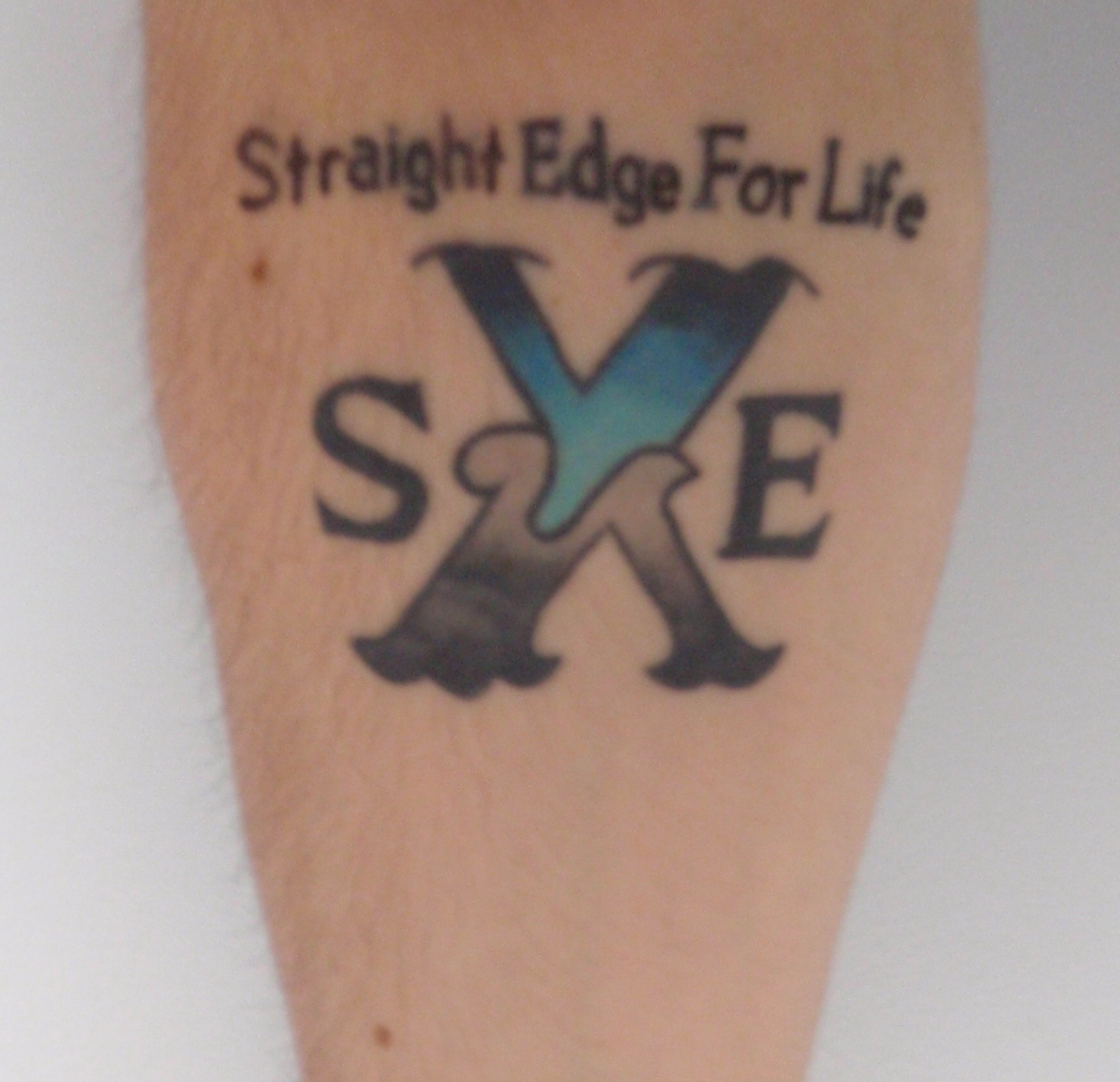 Photograph of a Straight Edge Tattoo